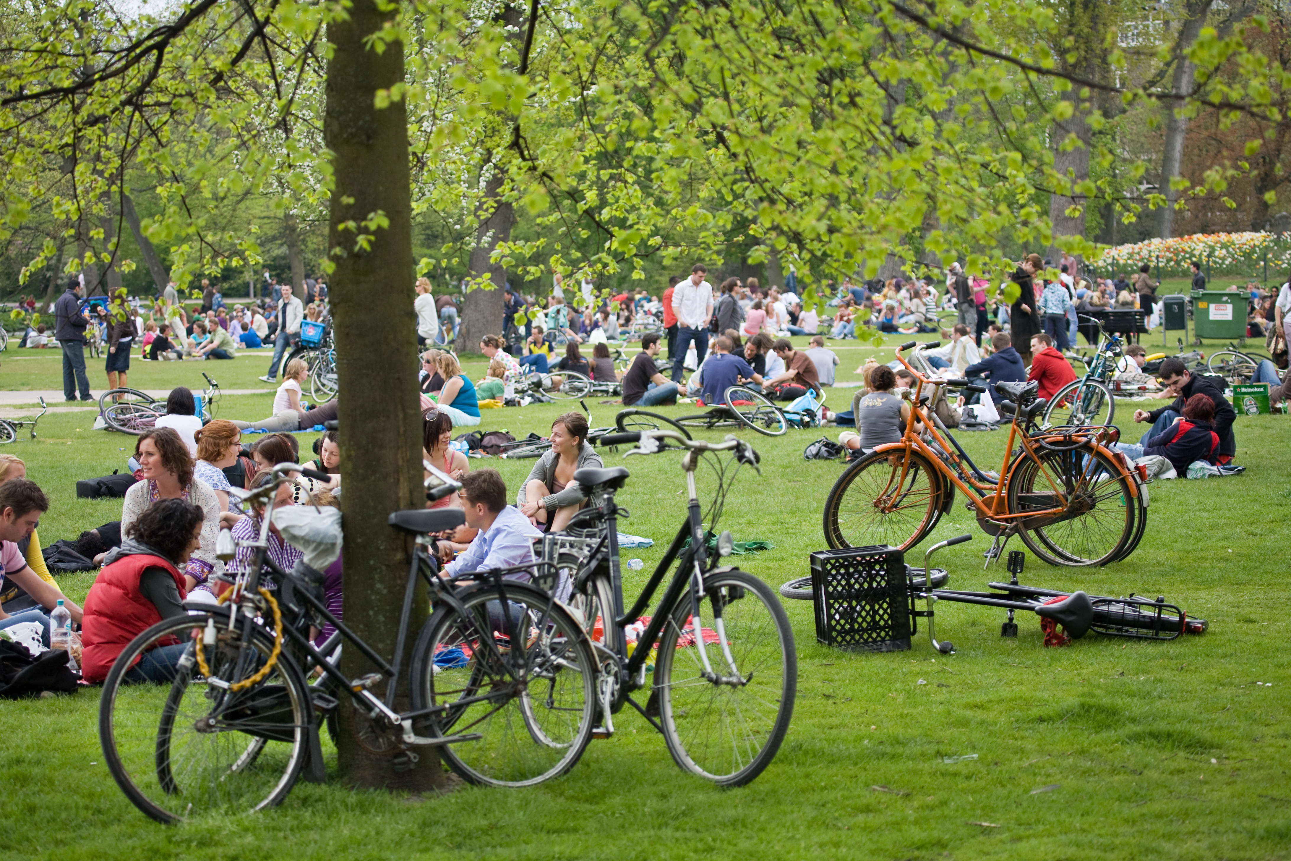 Sunday in the Vondelpark. Amsterdam, The Netherlands